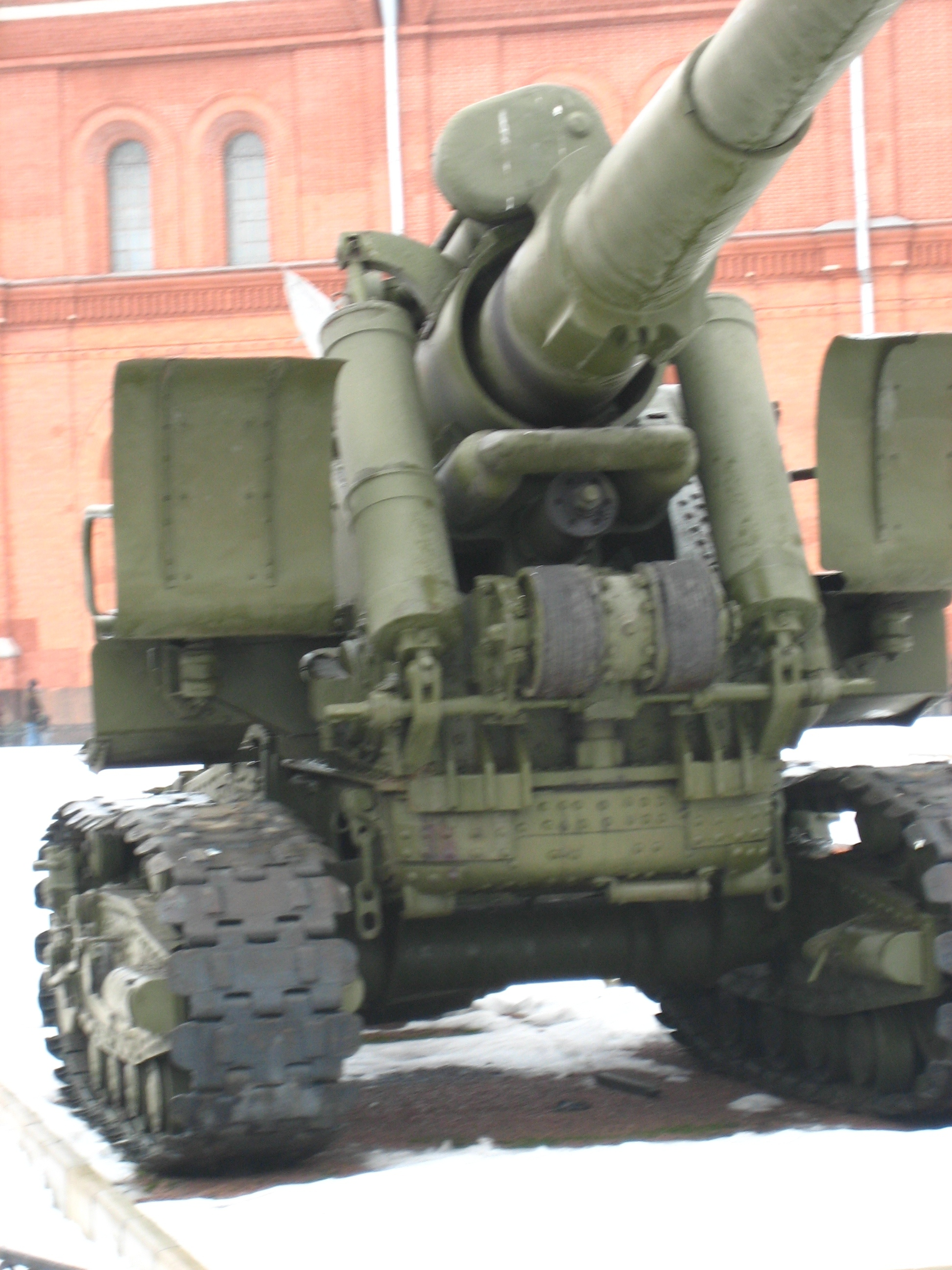 Soviet 152mm Br-2 Mark 1935 gun, displayed in Saint Petersburg Artillery Museum. Photo taken on 3 Marсh, 2007. Source: Photo by me, User:Saiga20K.